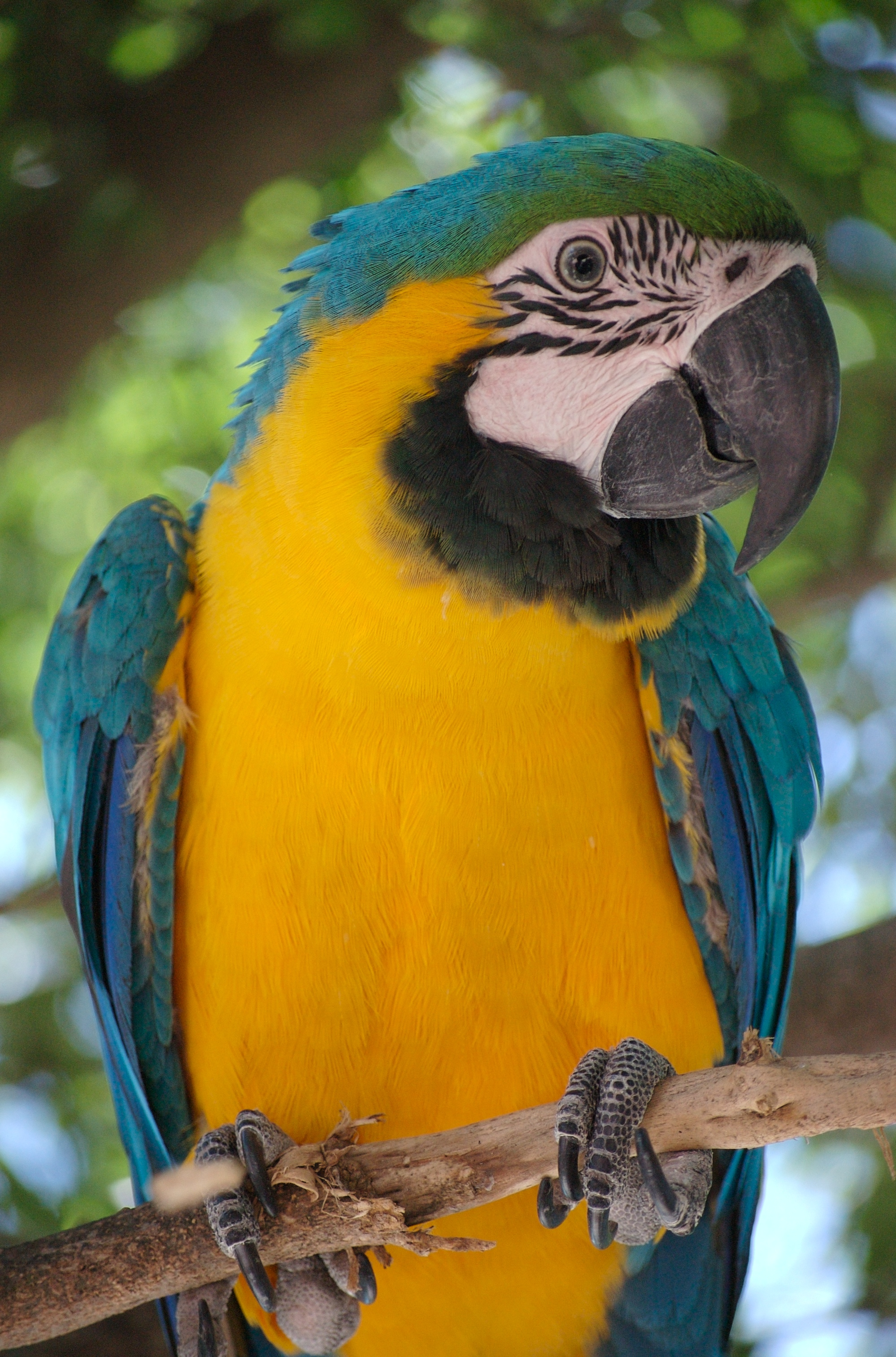 Blue-and-yellow Macaw (Ara ararauna) in a tree at Lujan Zoo, Argentina.Scarlet Macaw in the tree